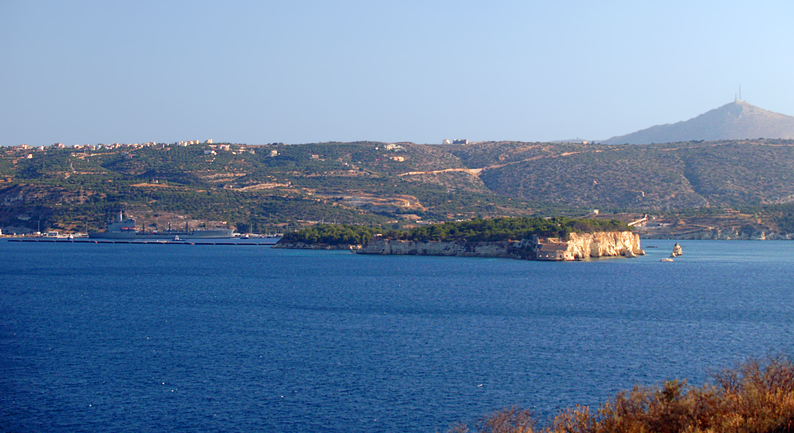 View of Souda Island from Kalami